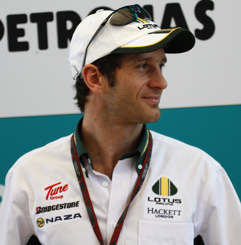 Formula One 2010 Rd.3 Malaysian GP: Jarno Trulli (Lotus) at autograph session on Sunday.